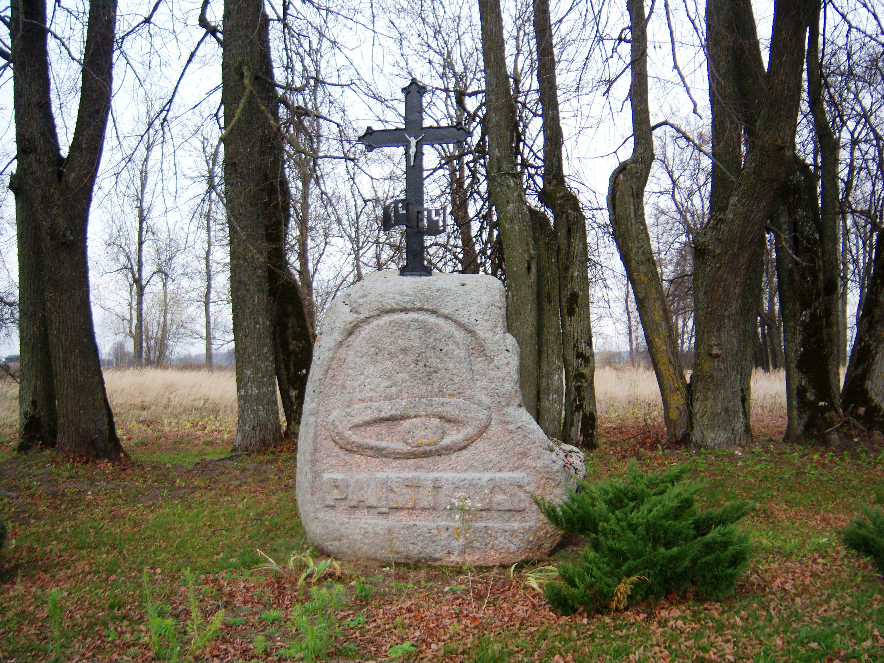 Paįstrys stone, Panevėžys District, Lithuania